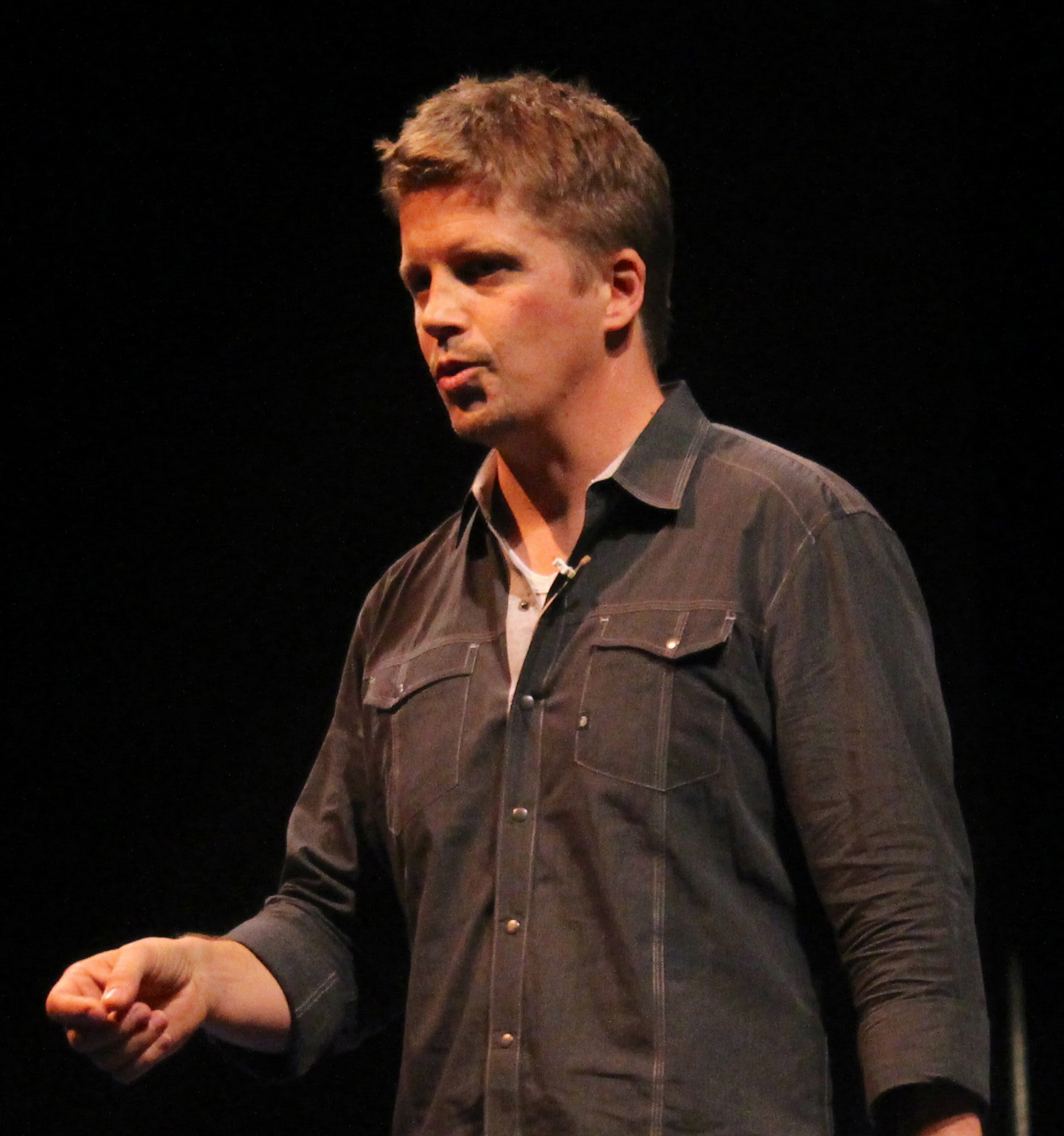 Steve Emerson at the Portland Creative Conference 2015, in Portland, Oregon